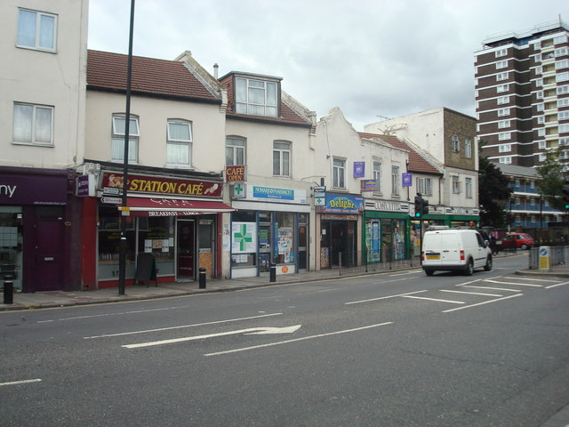 Shops, High Street, Plaistow, London E13